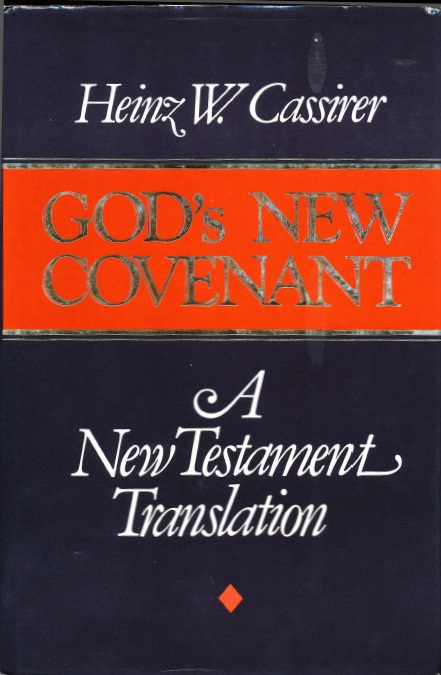 Cover of New Testament translation by Heinz Cassirer, God's New Covenant: A New Testament Translation